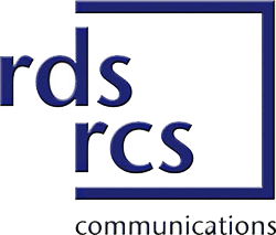 Logo of RCS & RDS